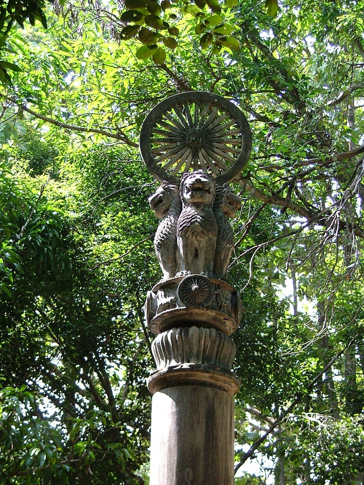 I, L N Roychoudhury, took this photo for my own pleasure at Wat U Mong, Chiang Mai, Thailand on 18.10.2003 / 11:40 hrs